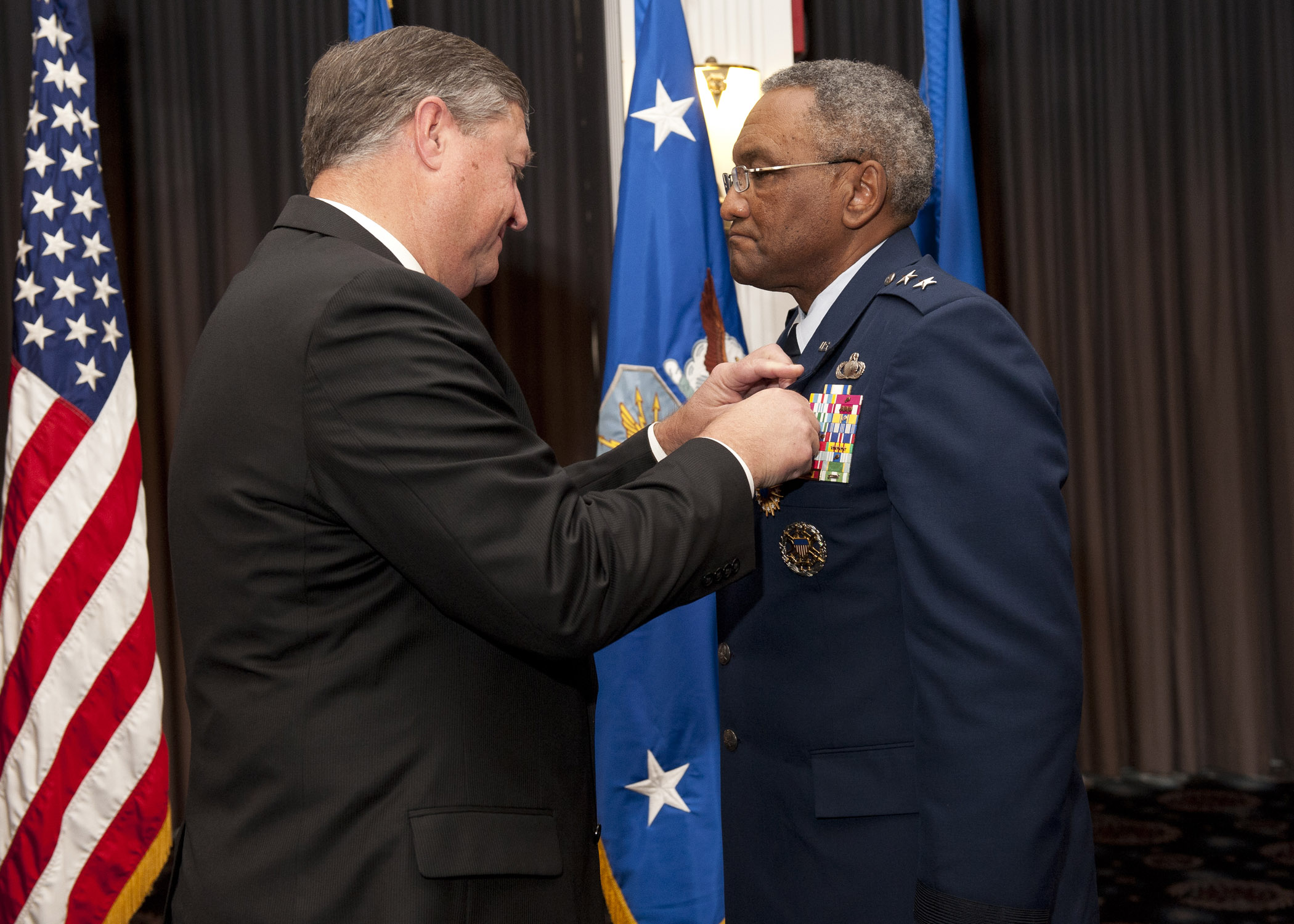 Secretary of the Air Force Michael Donley presents Maj. Gen. Alfred Flowers the Distinguished Service Medal during the general’s retirement ceremony in Washington D.C.